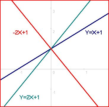 Another graph made for my article, Darn I didn't click the GFDL thing in time, Anyways I relase this image into the public Domain...etc... I hope this does the trick